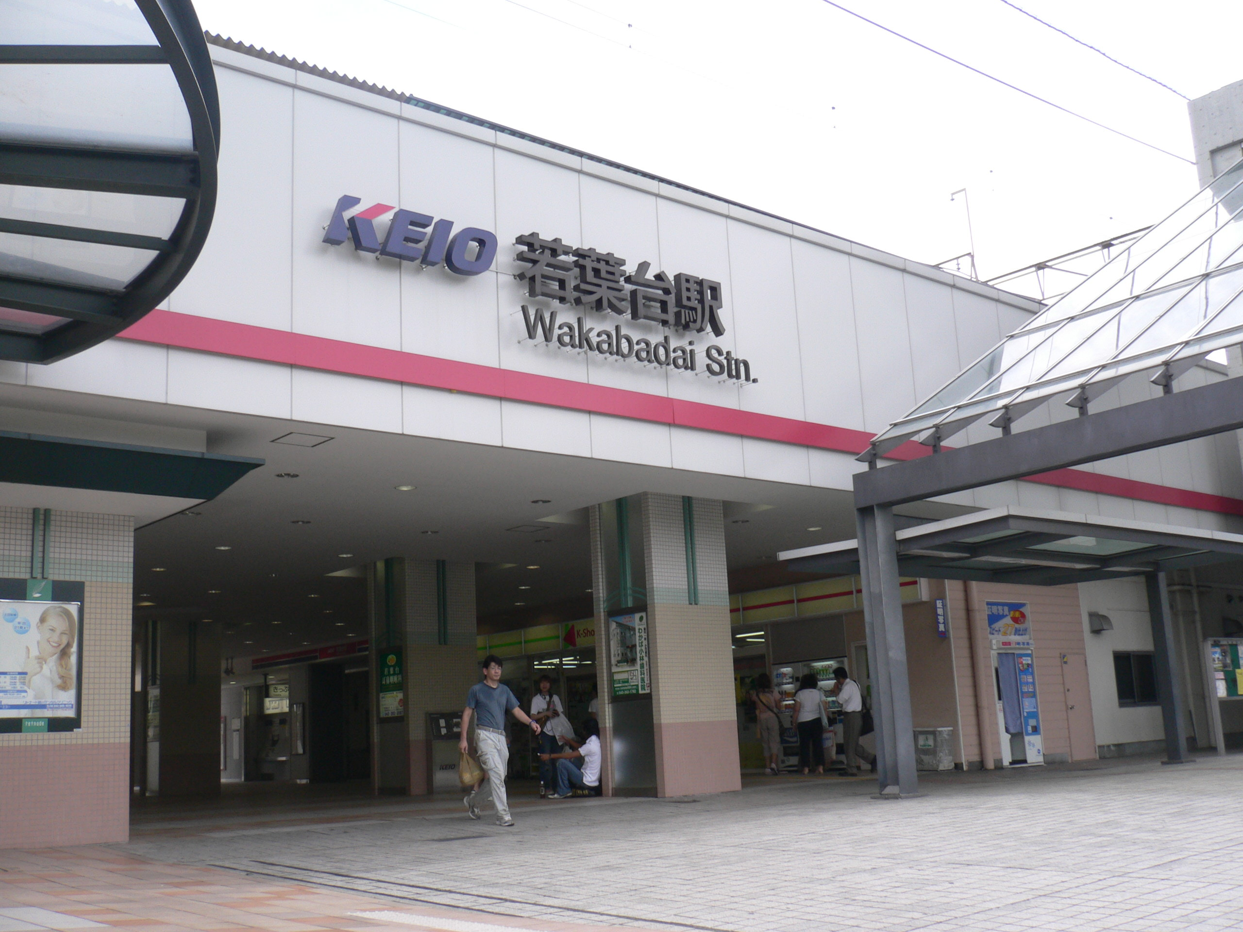 Wakabadai Station, Kawasaki, Kanagawa